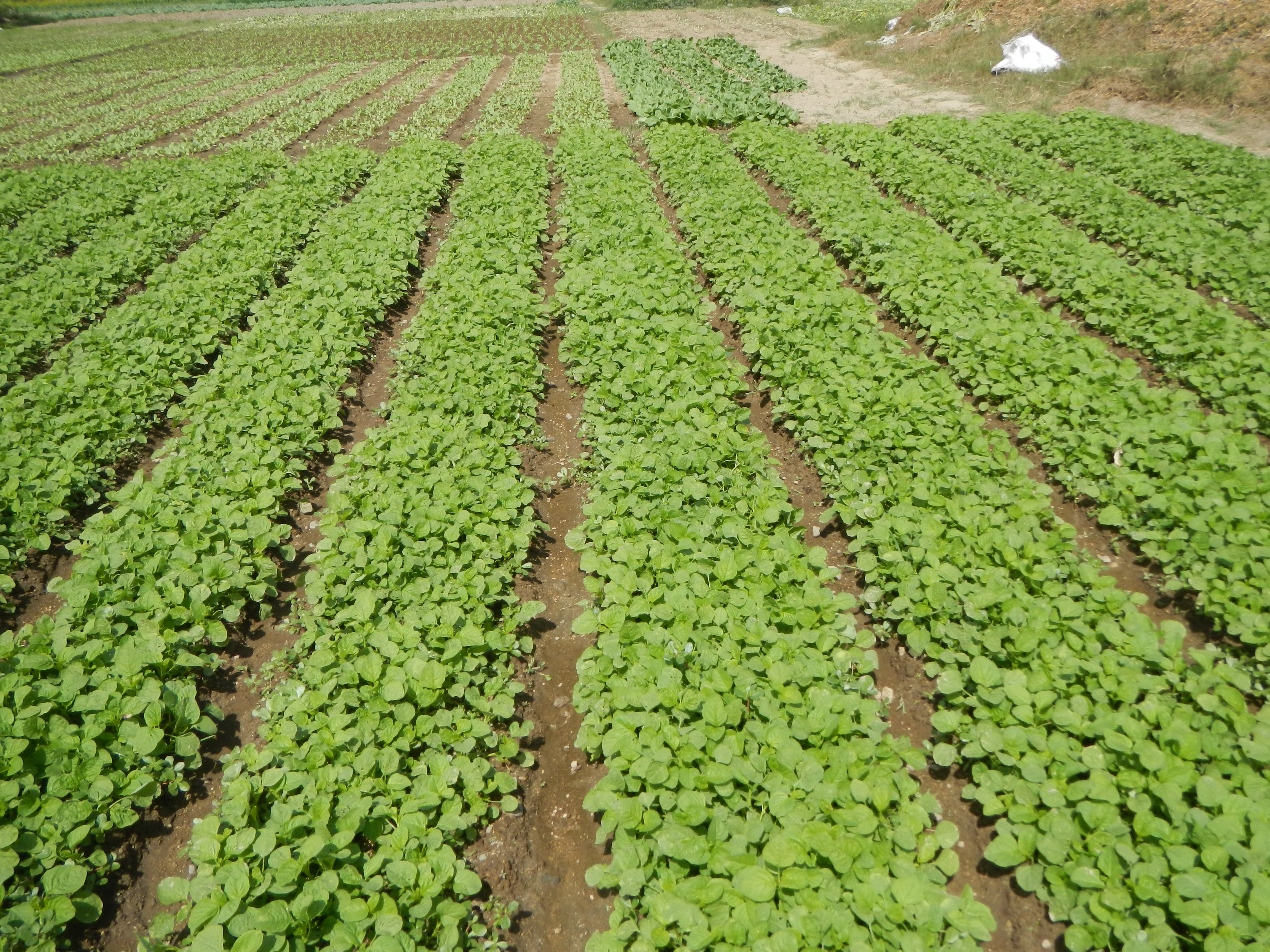 Spinach Spinacia oleracea in Barangay Camachiles, Mabalacat, Pampanga.